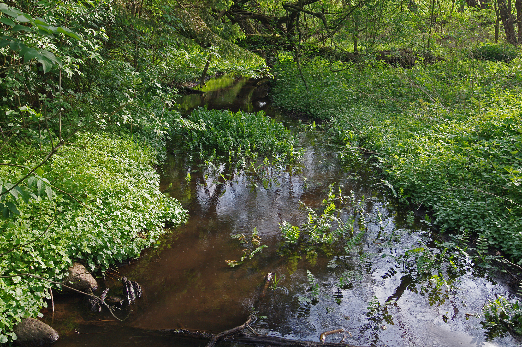 A natural section of the mill stream "Kateminer Muehlenbach" near Darzau. Unlike most "mill streams" of the Drawehn-ridge, this creek doesn't flow to the River Jeetzel, but to the north directly into the Elbe.